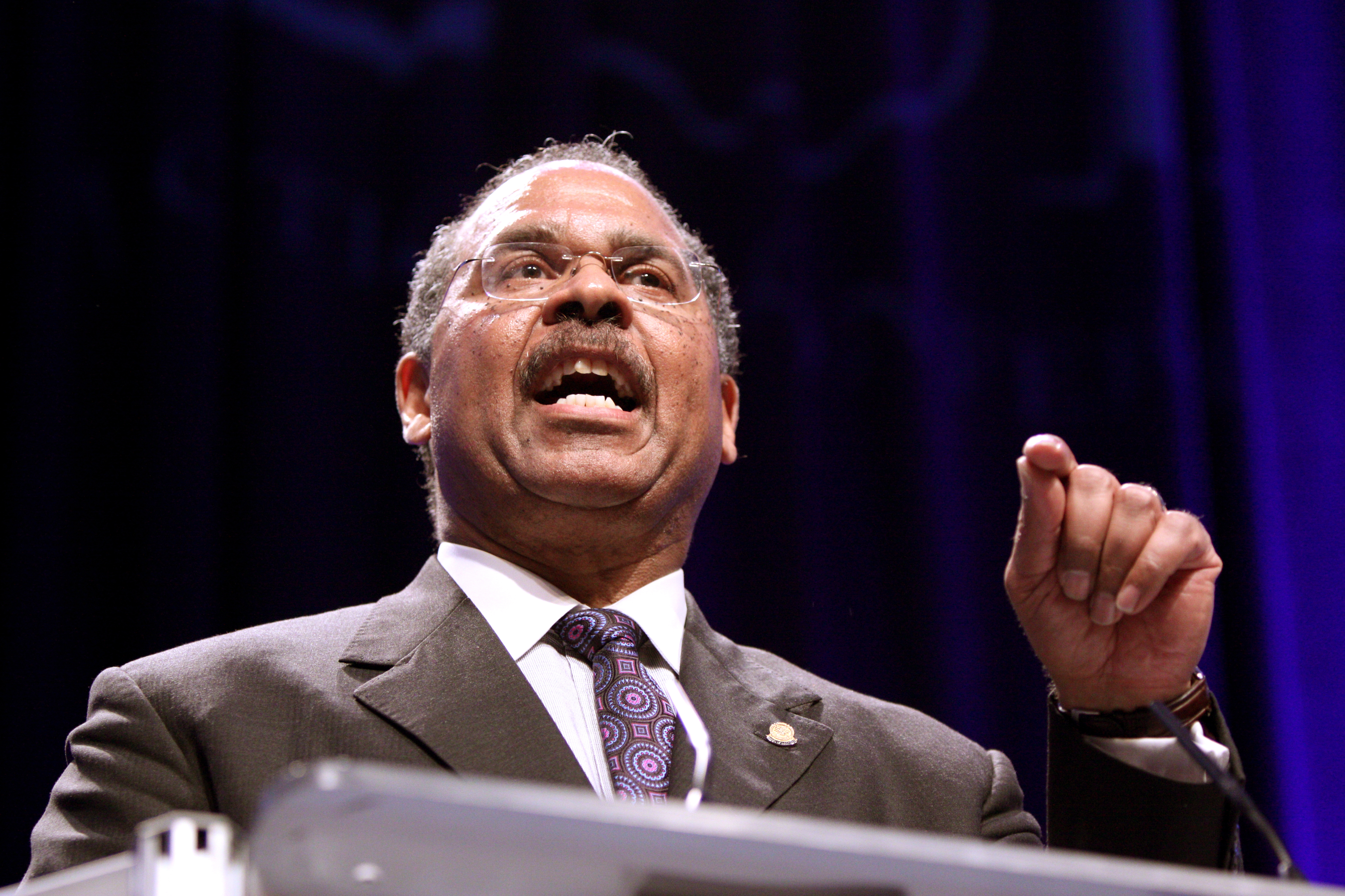 Former Secretary of State of Ohio Ken Blackwell speaking at CPAC 2011 in Washington, D.C.